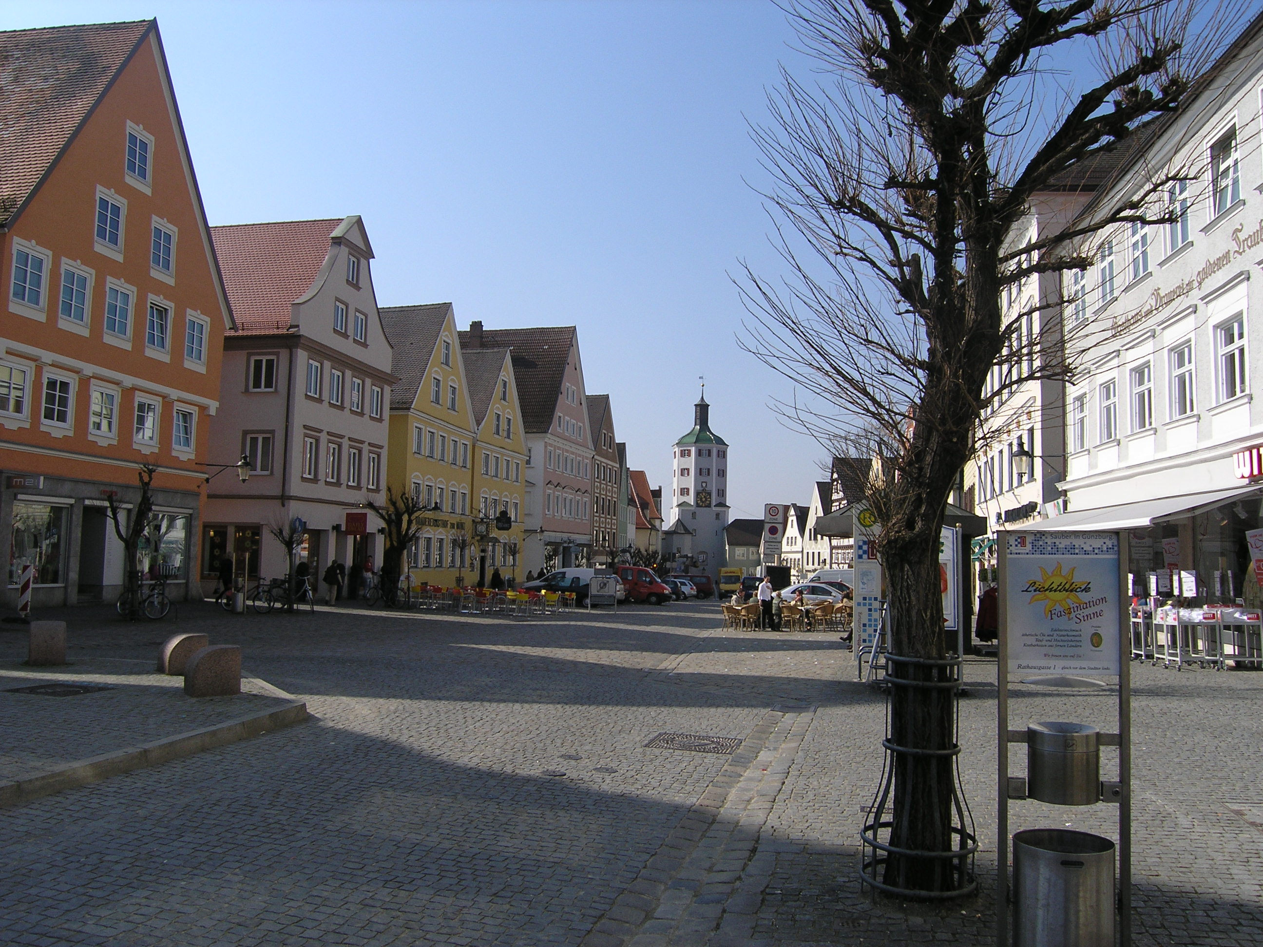 Marktplatz looking towards the Unteres Tor source: photo taken by Effi Schweizer Date: March 16, 2007 author: Effi Schweizer